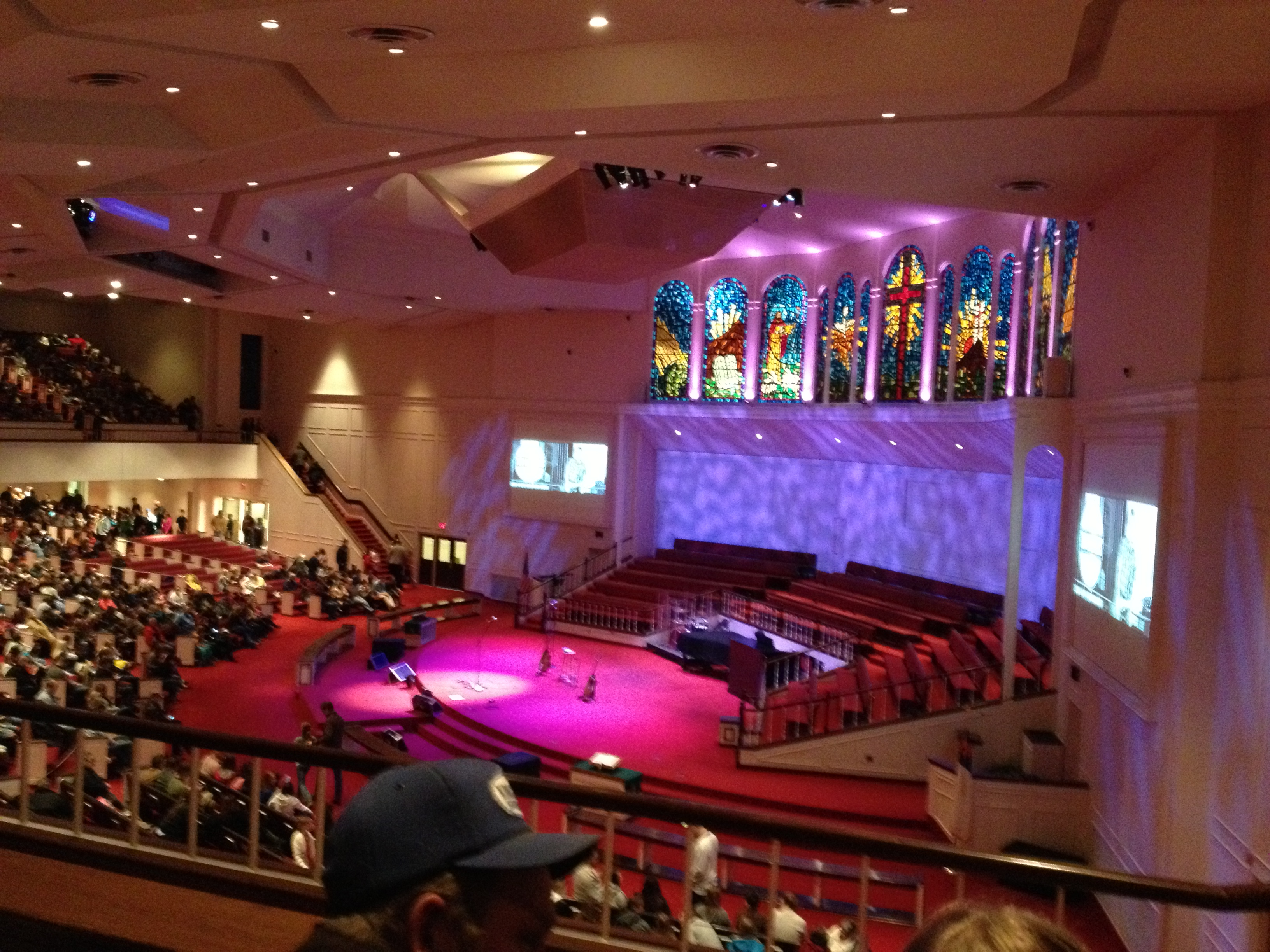 Interior of sanctuary of College Nazarene Church in Olathe, Kansas